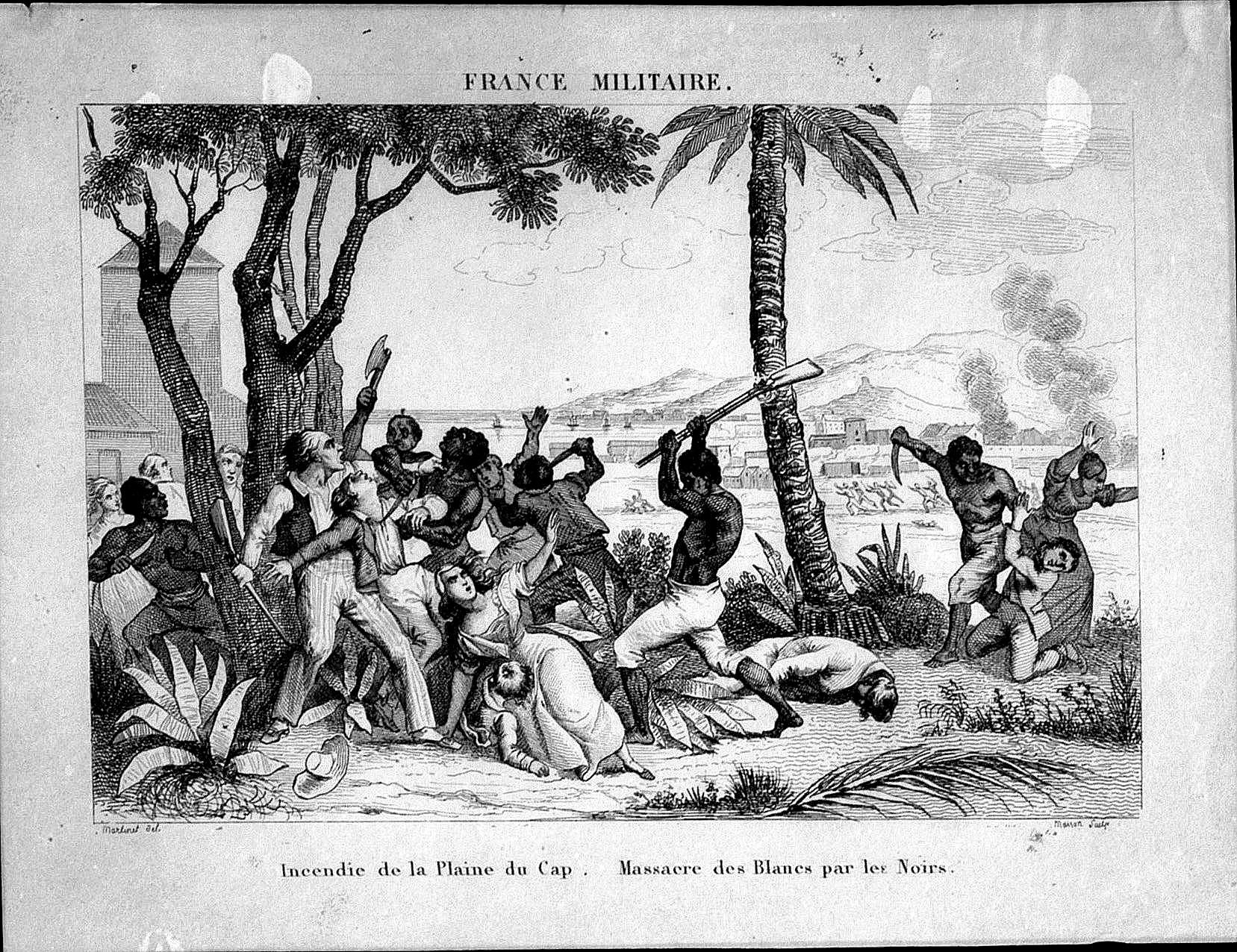 "Burning of the Plaine du Cap - Massacre of whites by the blacks". On August 22 1791, slaves set fire to plantations, torched cities and massacred the white population.